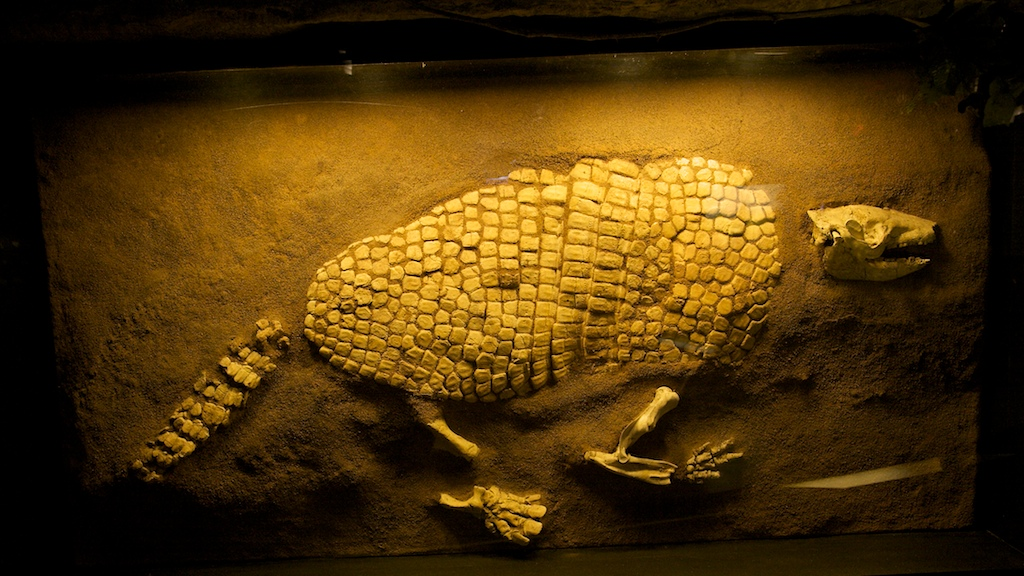 Giant Armadillo Holmesina septentrionalis (Pleistocene, Beaumont Formation, Brays Bayou, Houston, TX) HMNS 173 Wikipedia Loves Art at the Houston Museum of Natural Science This photo of item # [1] at the Houston Museum of Natural Science was contributed under the team name "etee_in_Space_Ceetee" as part of the Wikipedia Loves Art project in February 2009. Houston Museum of Natural Science The original photograph on Flickr was taken by etee—please add a comment to the original Flickr page whenever a use has been made on Wikipedia or another project. Project galleries on Flickr: this institution, this team